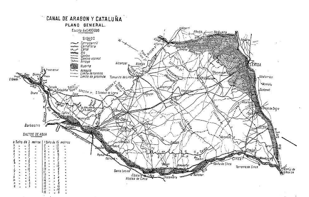 Plano de 1906 del canal de Aragón y Cataluña y su zona regable.